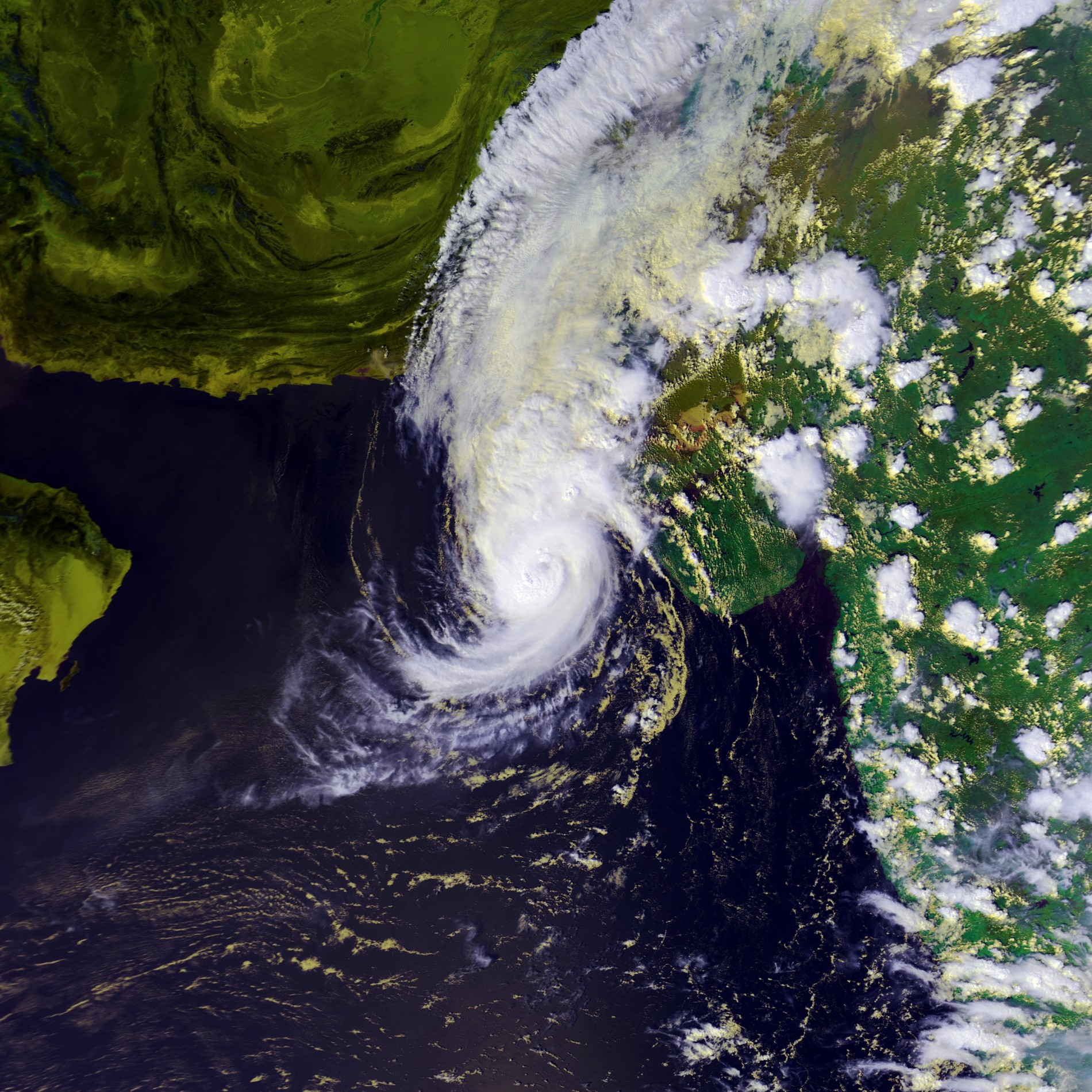 Tropical Cyclone Onil near peak intensity on October 2 at 0928 UTC. This image was produced from data from NOAA-16, provided by NOAA. Maximum sustained winds were about 45 mph at this time.